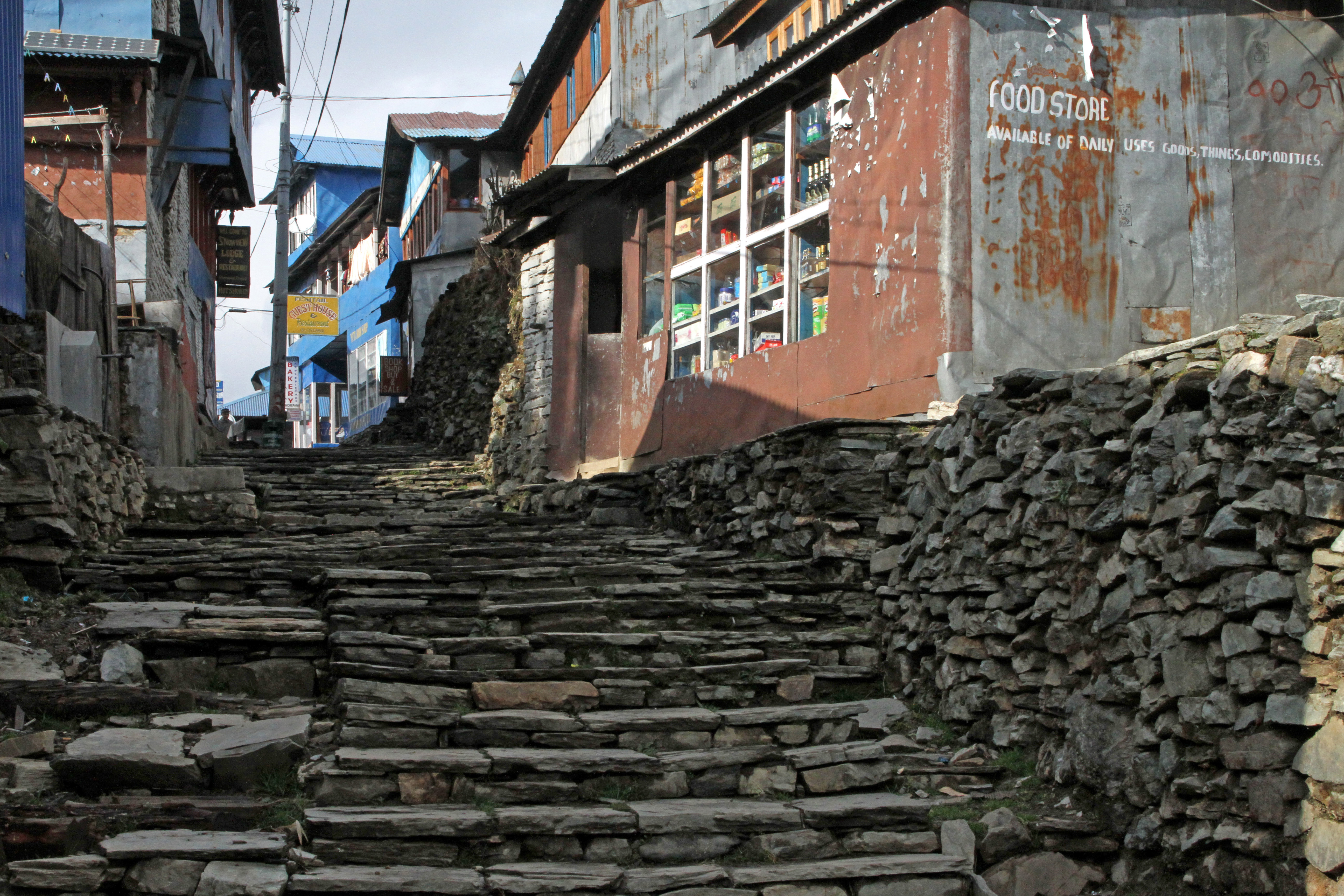 Ghorepani village in Nepal